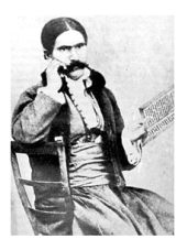 Bacho Kiro, Bulgarian revolutionary (1835-1876).